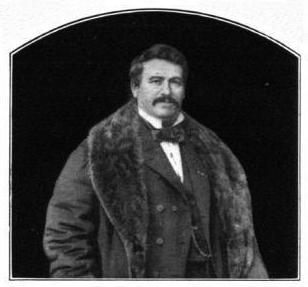 This image shows Richard Hartmann (1809-1878). Hartmann was one of the most successful entrepreneurs and largest employers in the Kingdom of Saxony.